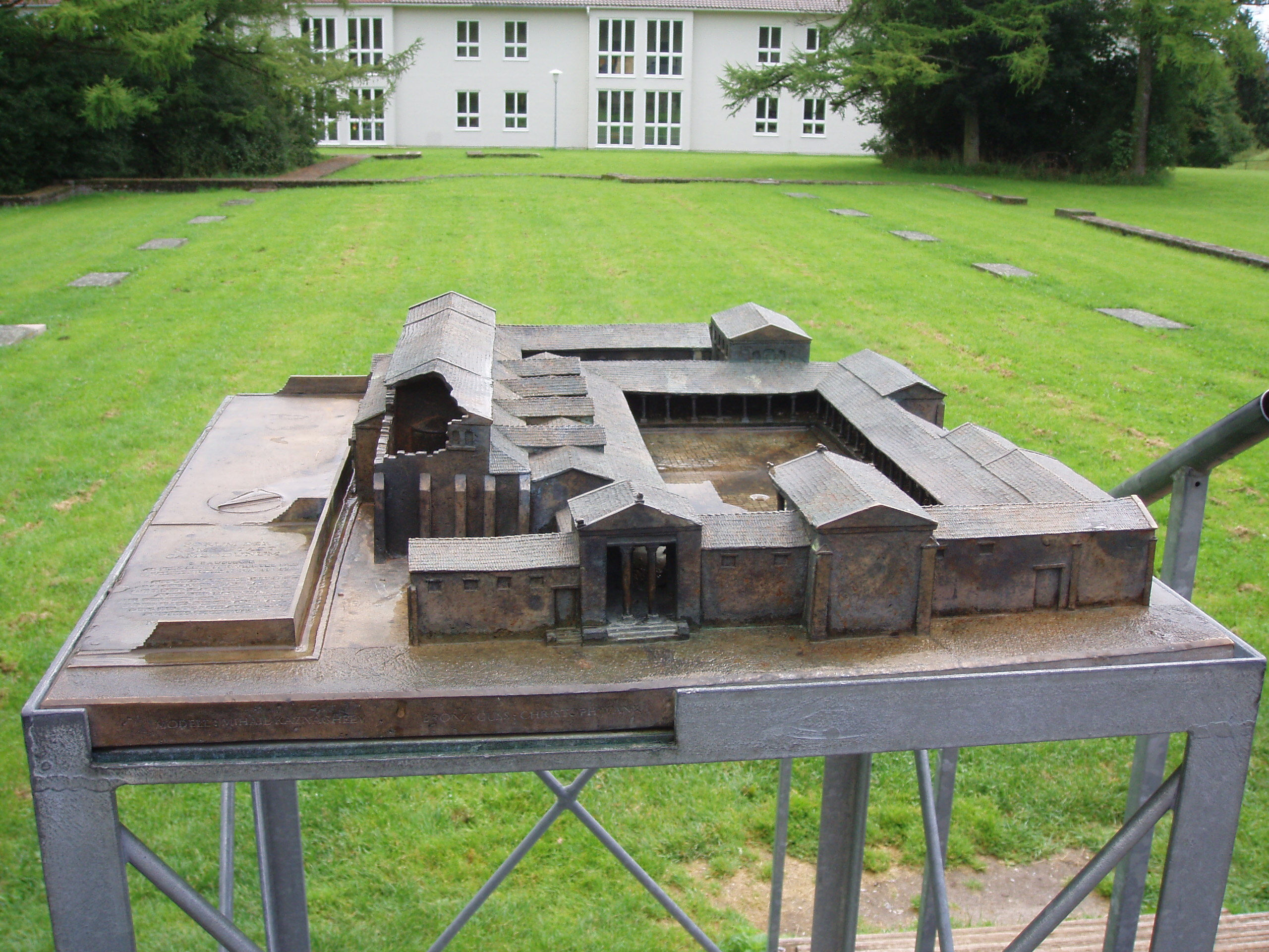 Cambodunum